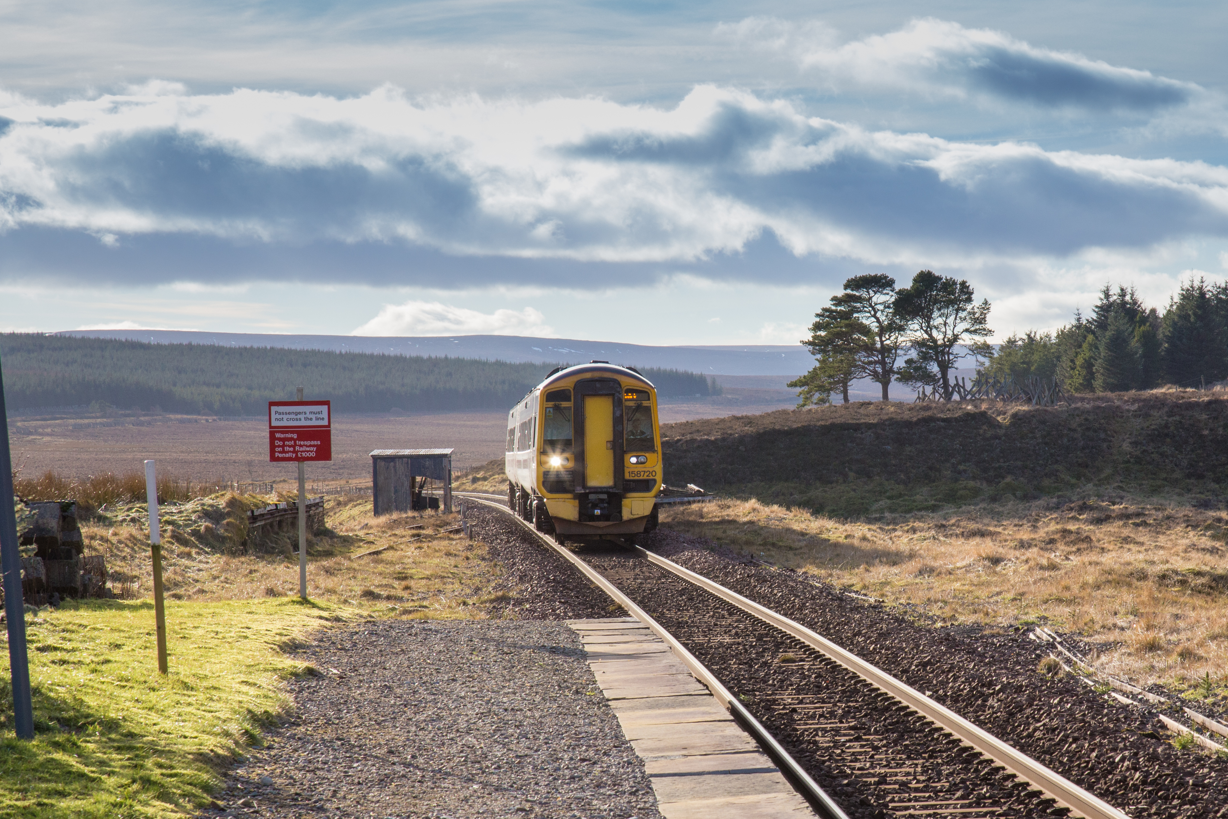 Altnabreac Railway Station (on the line from Helmsdale to Wick, Scotland), one of Britain's most isolated and remote railway stations - trains rarely stop, only on request, and it is inaccessible by road. - Taken by me, robef (